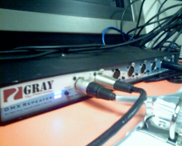 A DMX Opto-splitter, allows many things that take DMX to be plugged in to one controller.